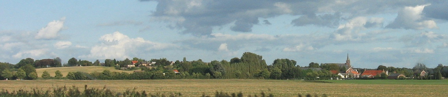 Brabantse Wal, Woensdrecht